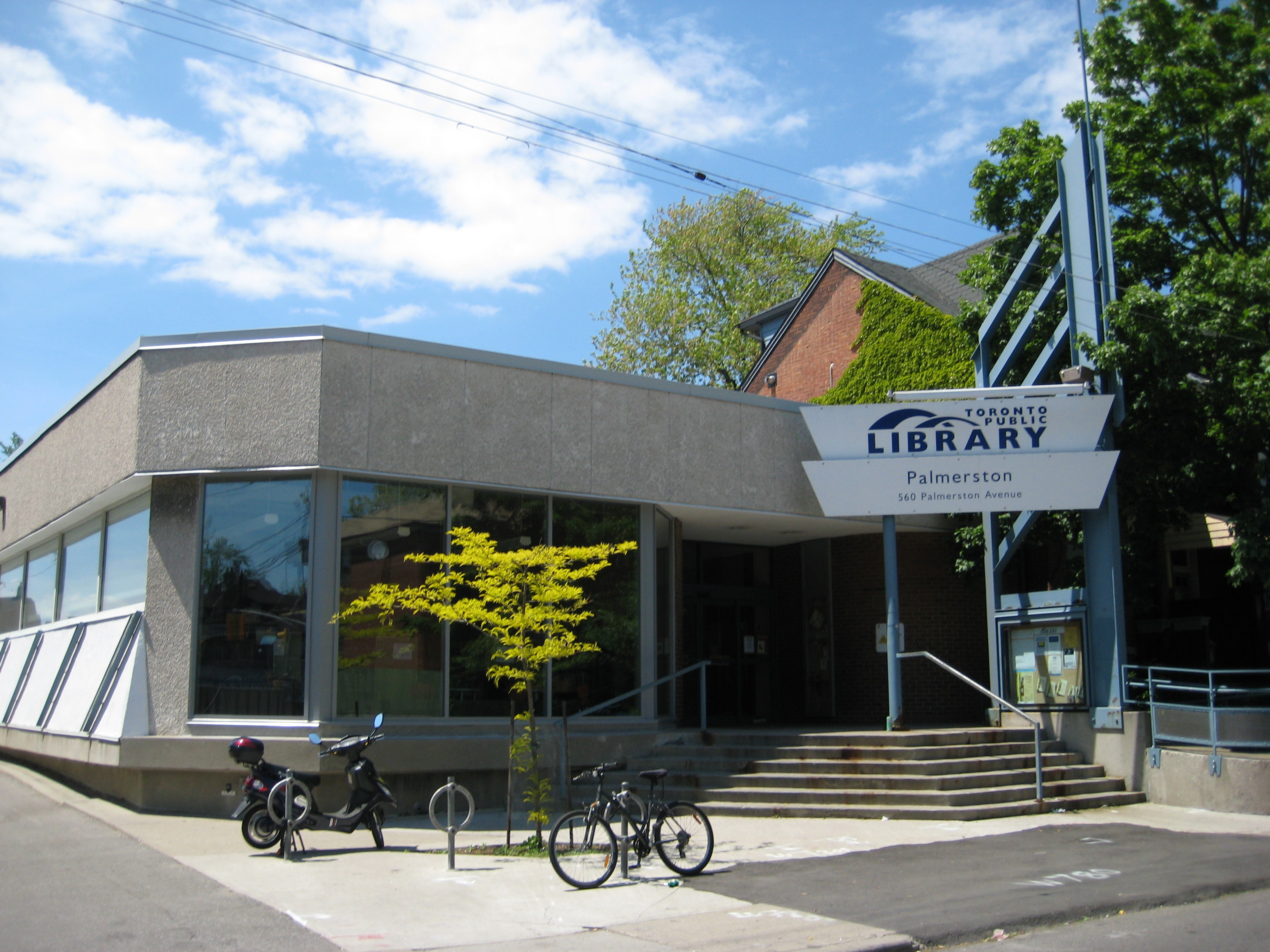 TPL Palmerston